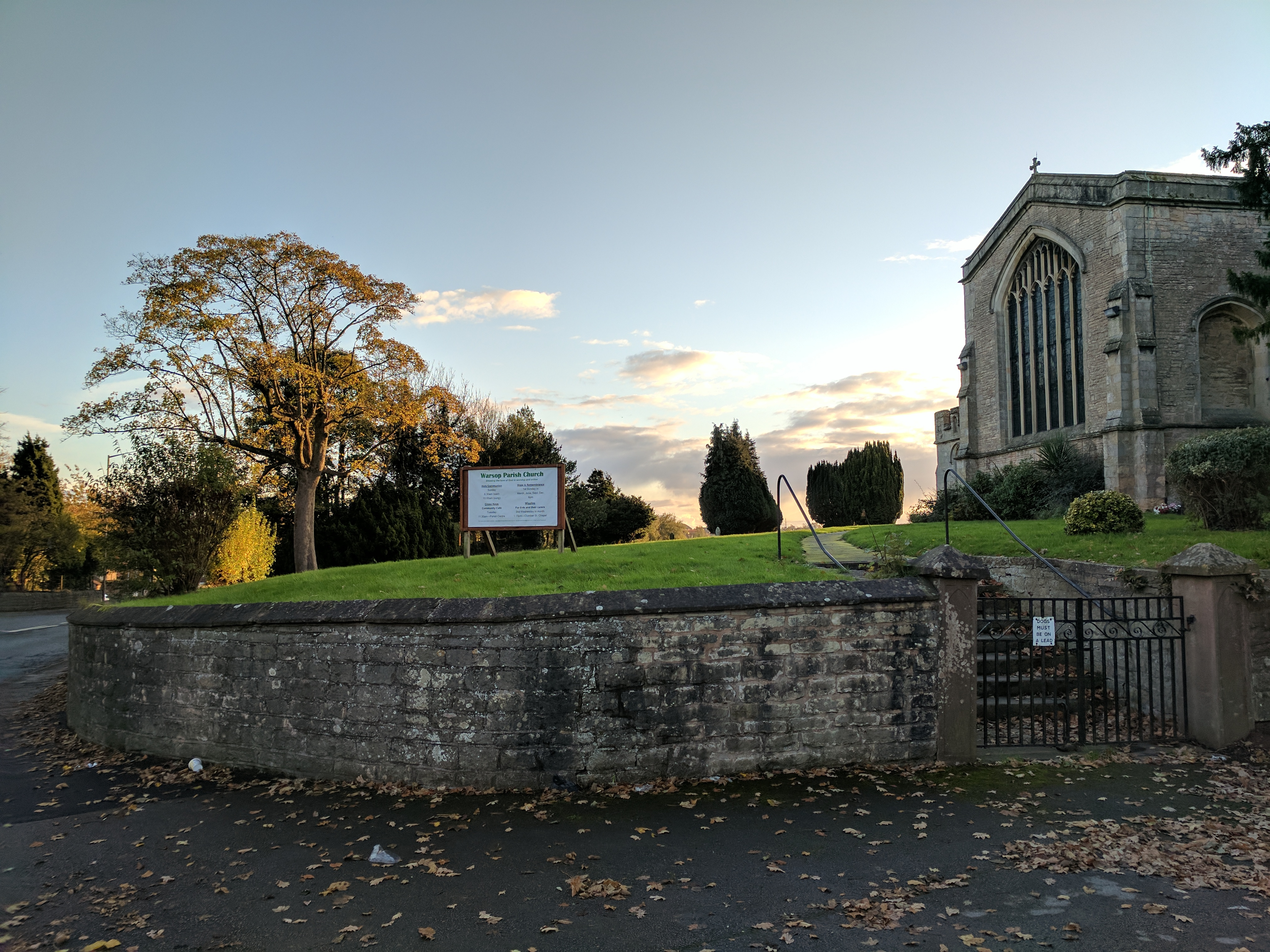 Boundary Wall, Gates, Piers And Overthrow At Church Of St Peter And St Paul Wikidata has entry Q26543819 with data related to this item.